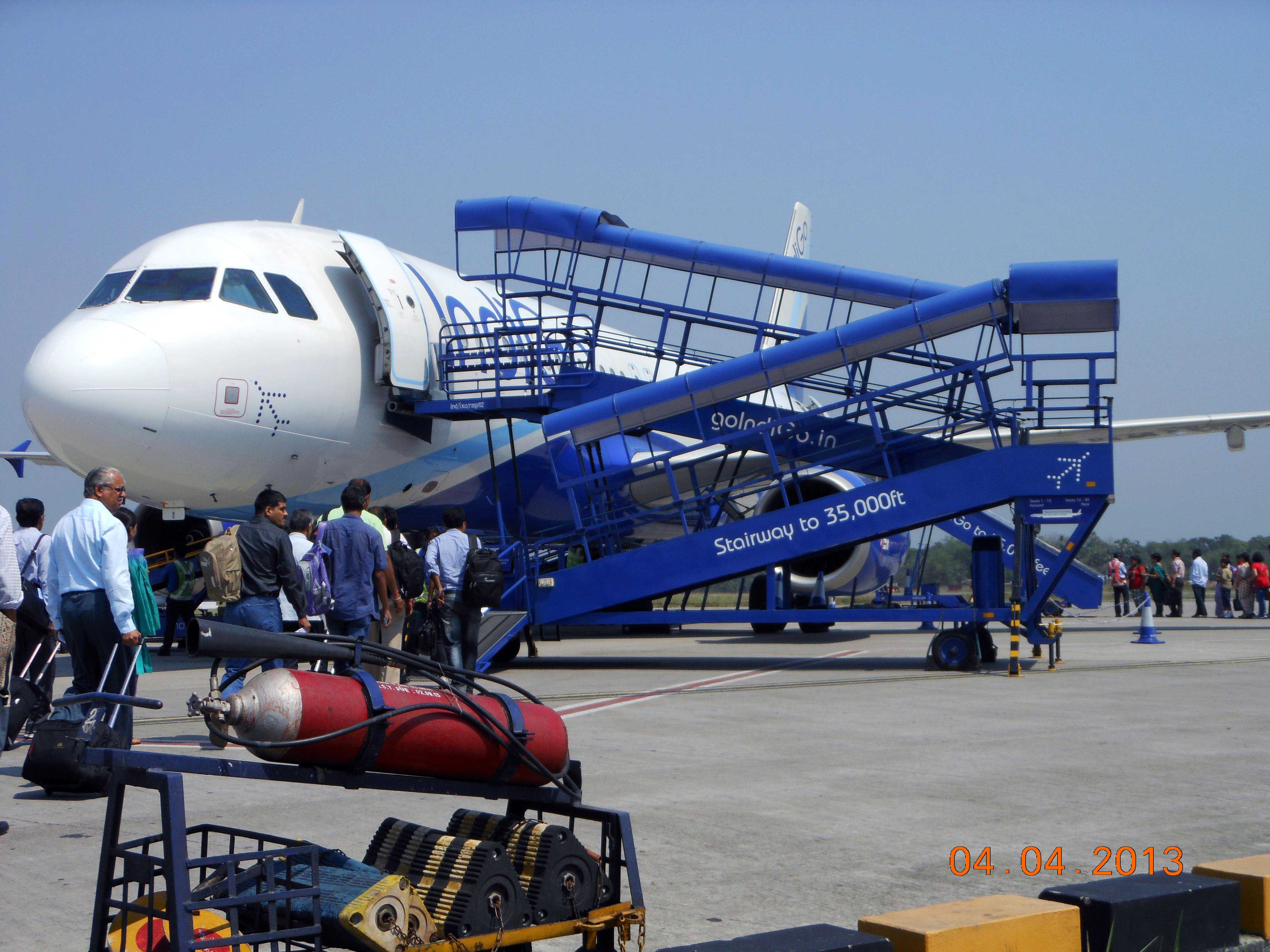 Indigo airlines parked in the apron of agartala airport